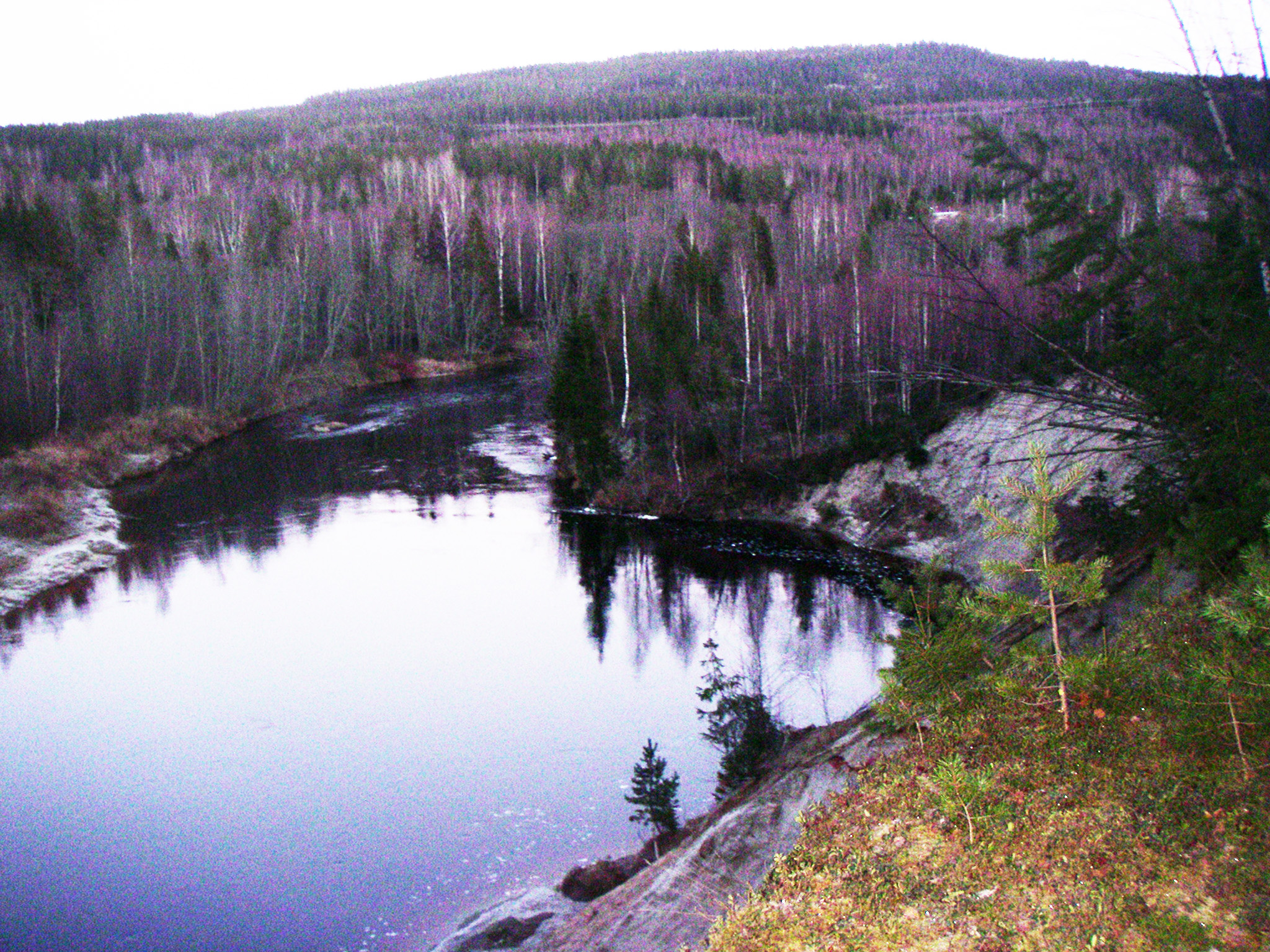 Moälven